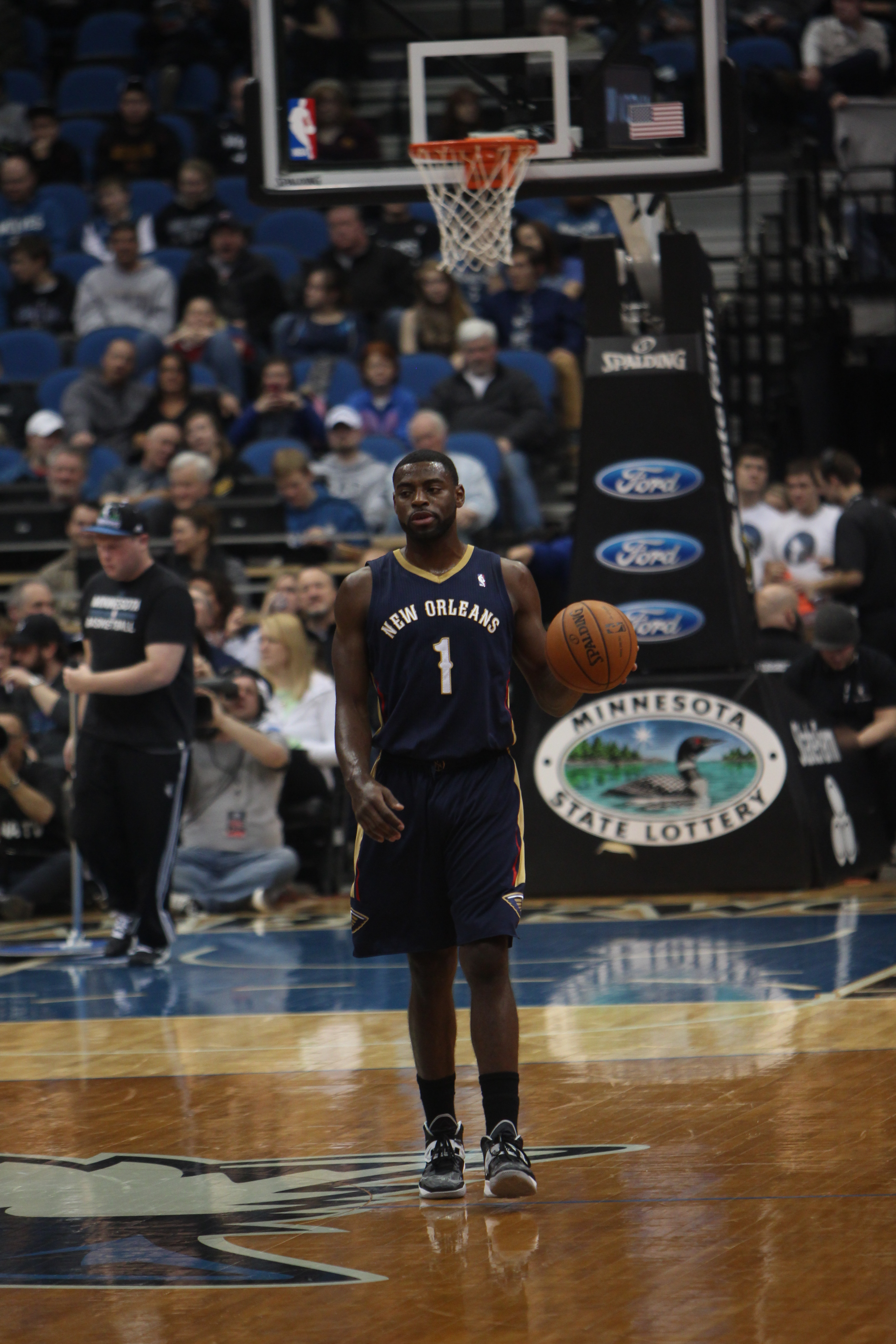 Tyreke Evans at the Target Center